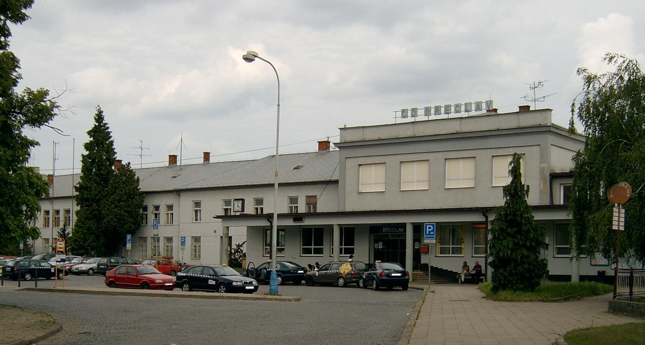 Train station in Břeclav.